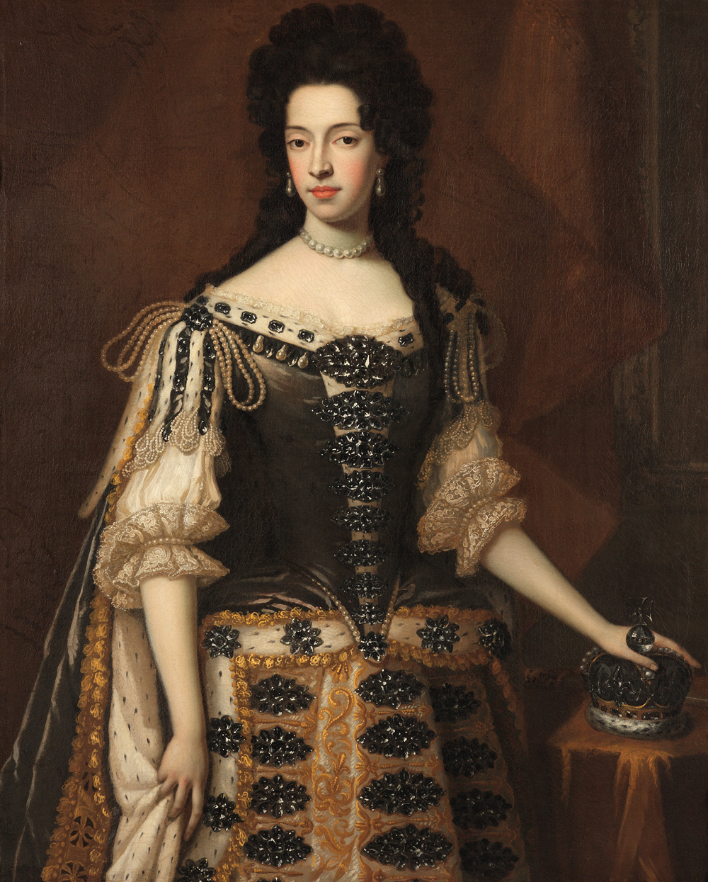 Mary of Modena, Queen of James II, with her eponymous diadem.